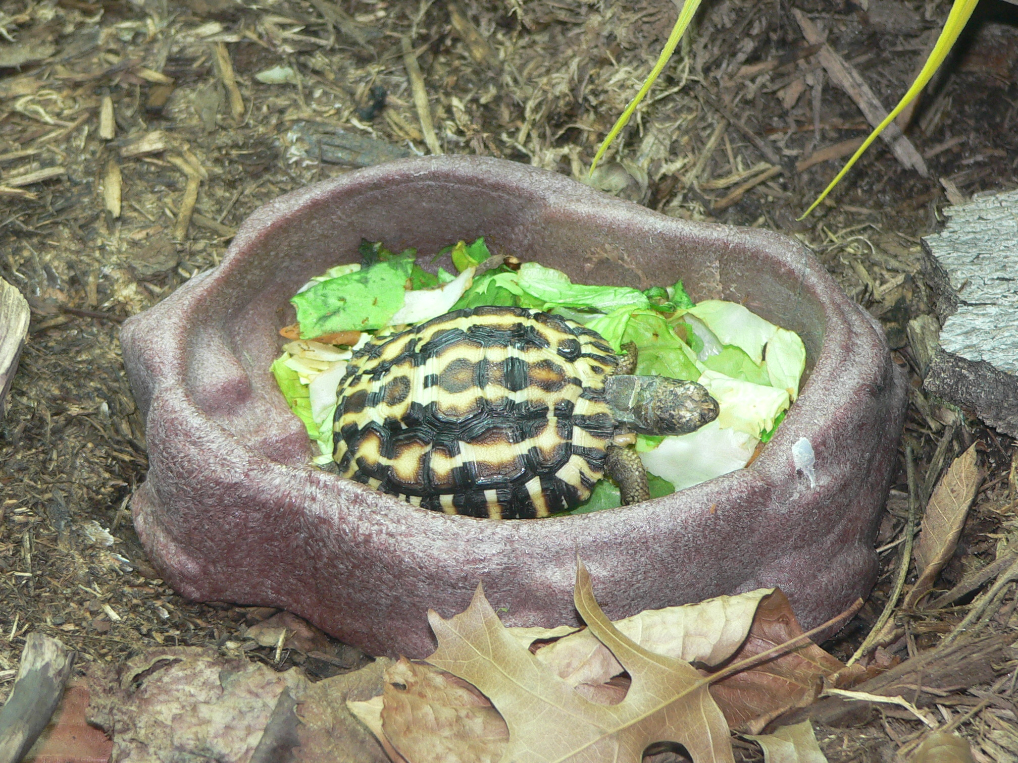 Flat-backed Spider Tortoise at Philadelphia Zoo.